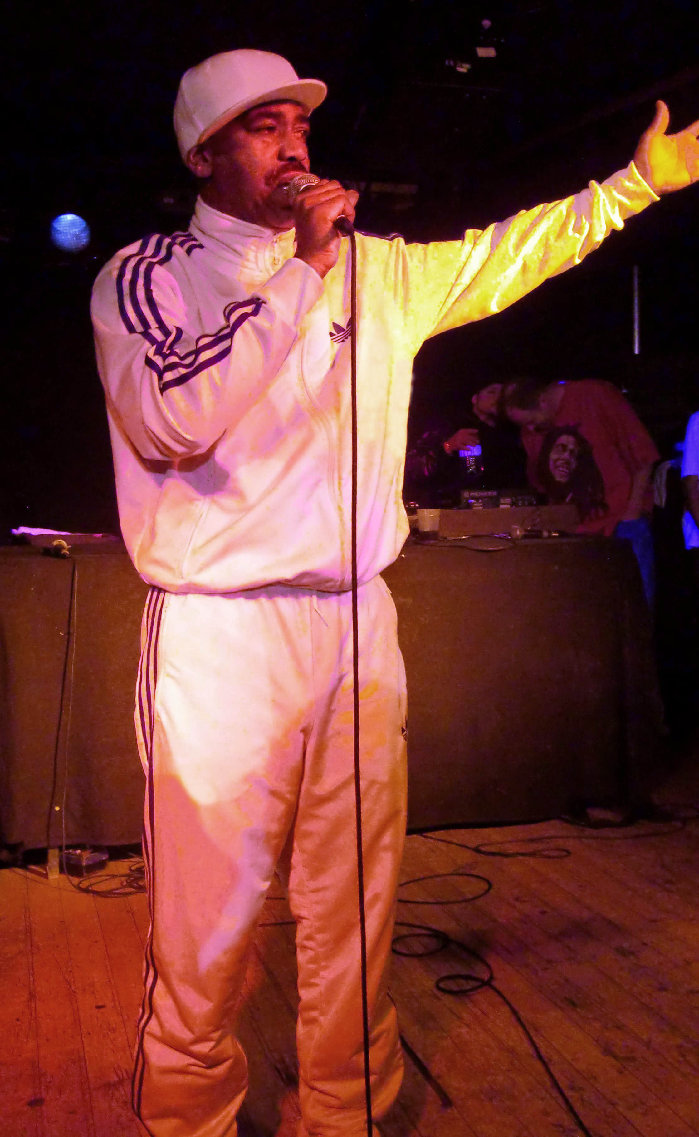 Kurtis Blow (Hanover, Germany), 2012-03-30